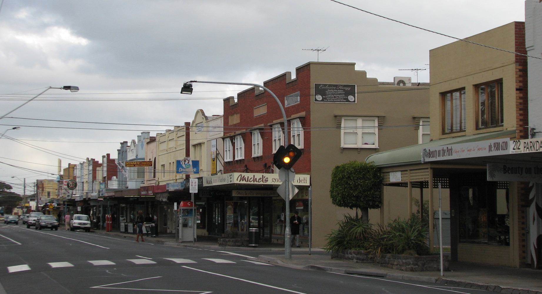 Como Parade West, Parkdale, Victoria, Australia